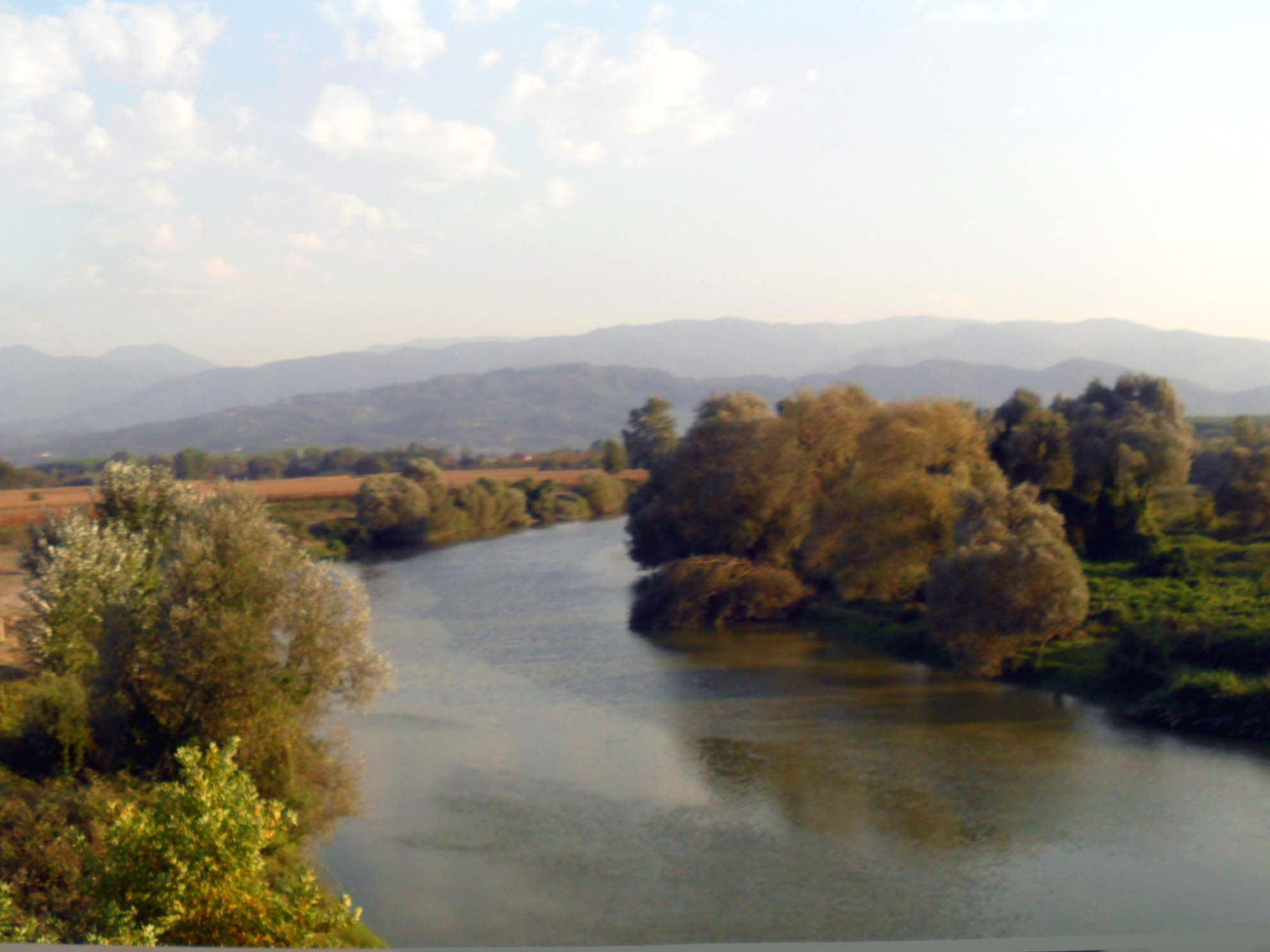 Sakarya River near Adapazarı, Turkey